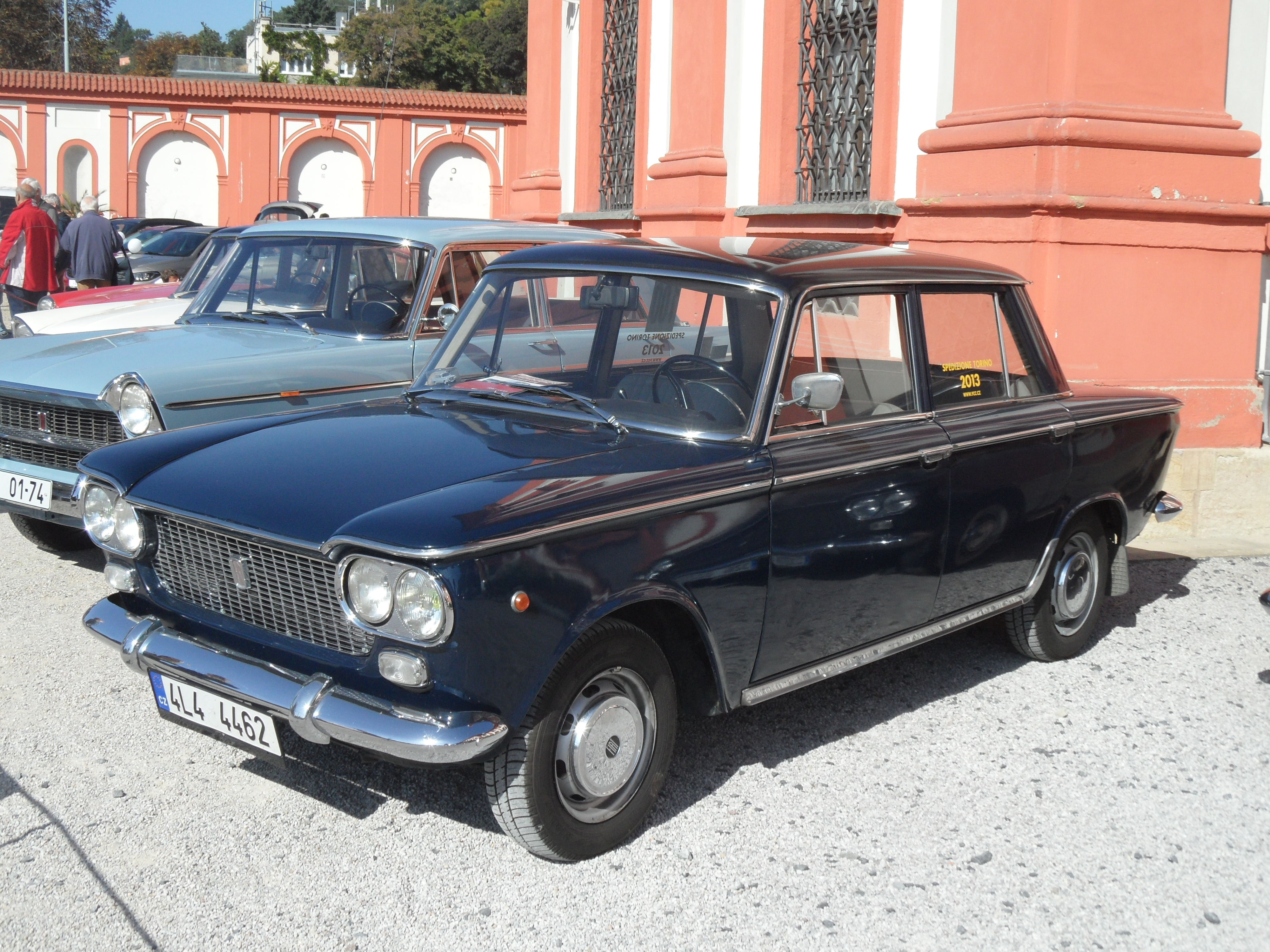 Celebrating the 120th anniversary of the founding of FIAT. C. Cars from 1950s and 1960s. FIAT 1300, 1963. Troja Palace, Prague, the Czech Republic.